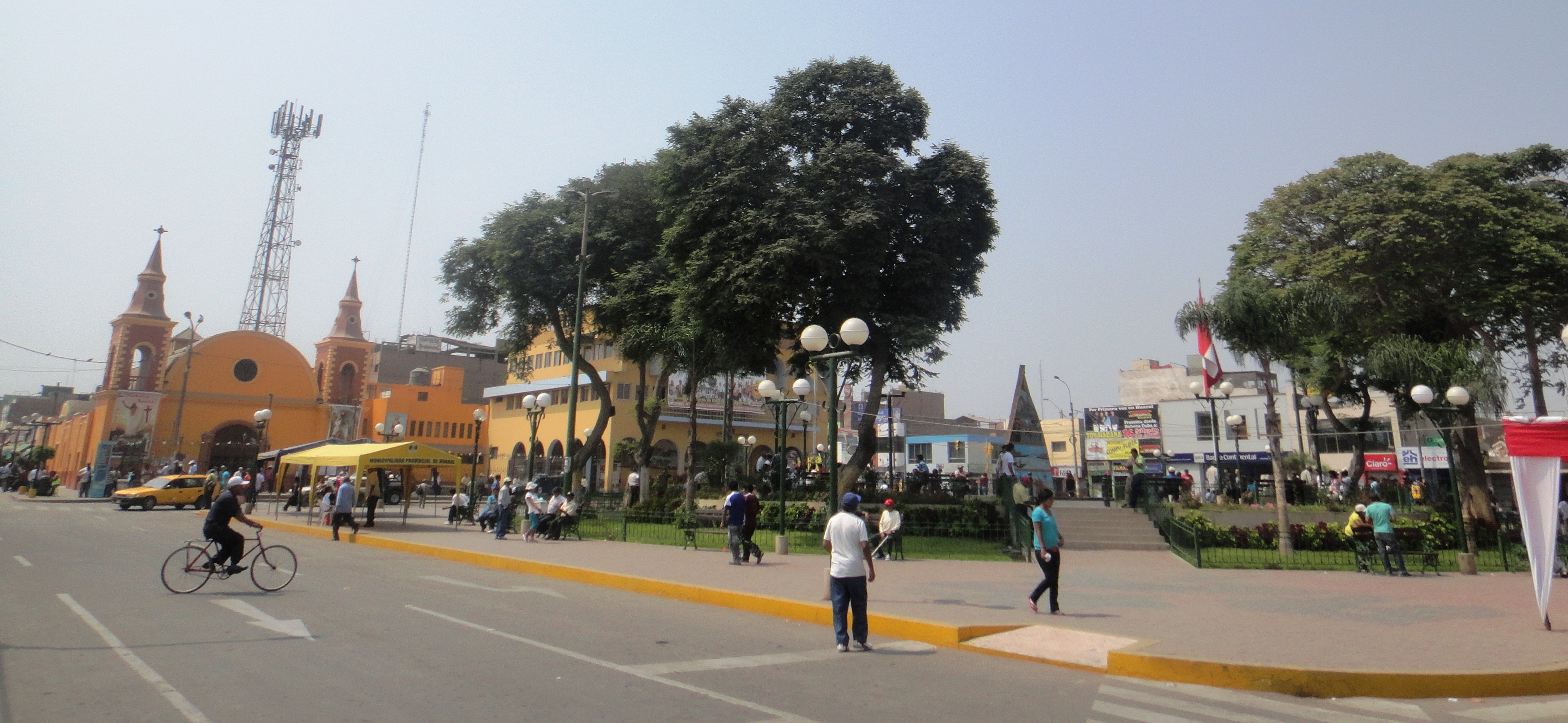 Main square in Huaral, Peru.